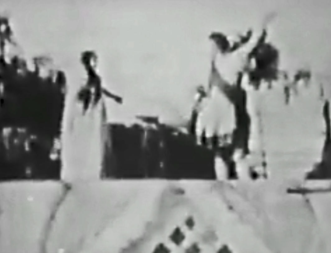 Ben Hur (1907) film. A screen capture.